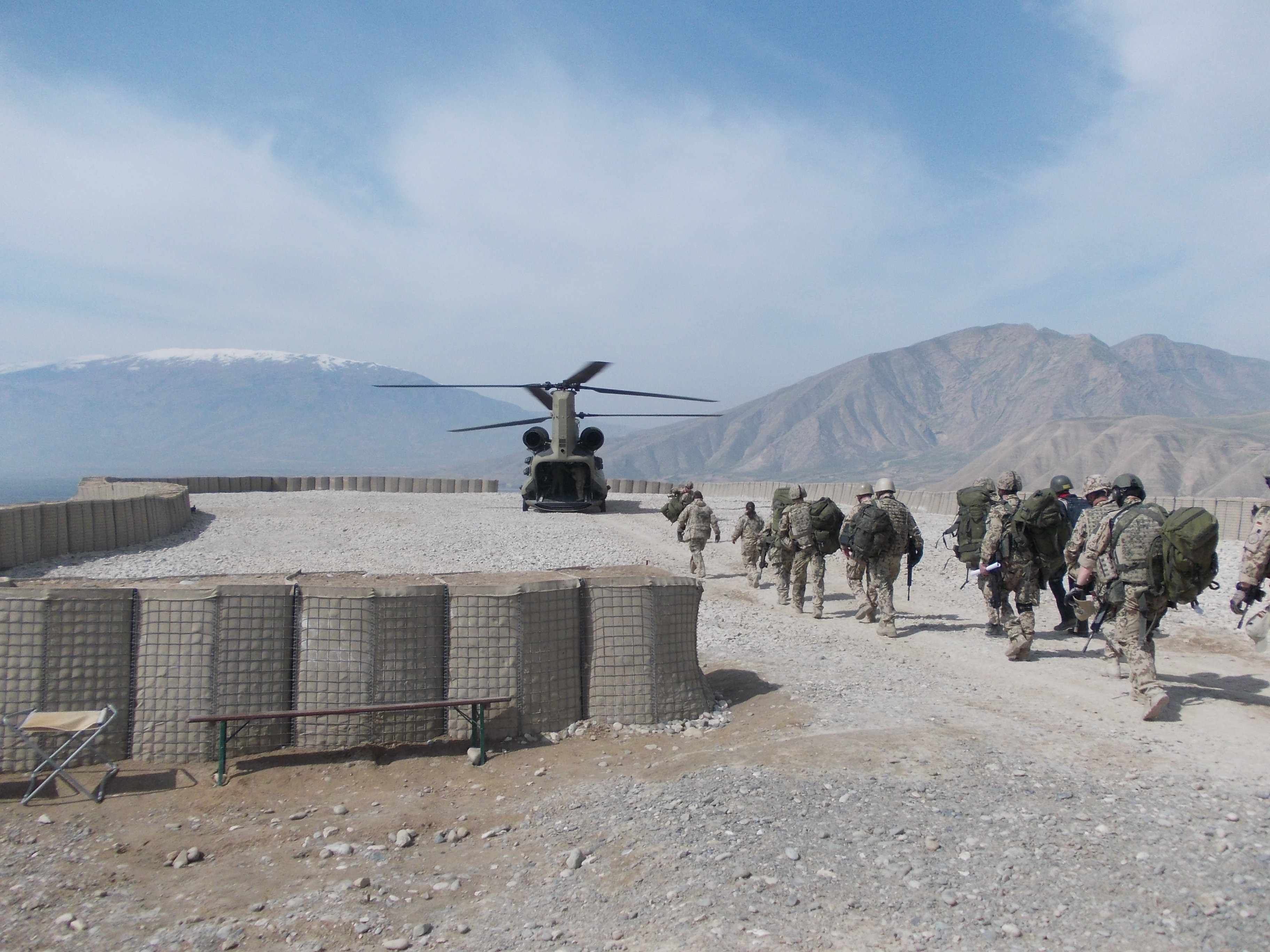 CH-47 Chinook at OP North